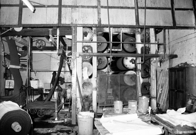 Textile finishing machinery, Red Bridge Mills, Ainsworth This site was operated by Stephen Glaister Ltd until 1985 when the company was liquidated. It is believed the works has been demolished. The machinery is a set of cloth drying cylinder (or "tins") and it was driven by a small diagonal duplex steam engine, now scrapped. Photographed in operation. Sadly, I didn't photograph the works.